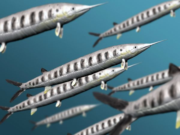 Aspidorhynchus